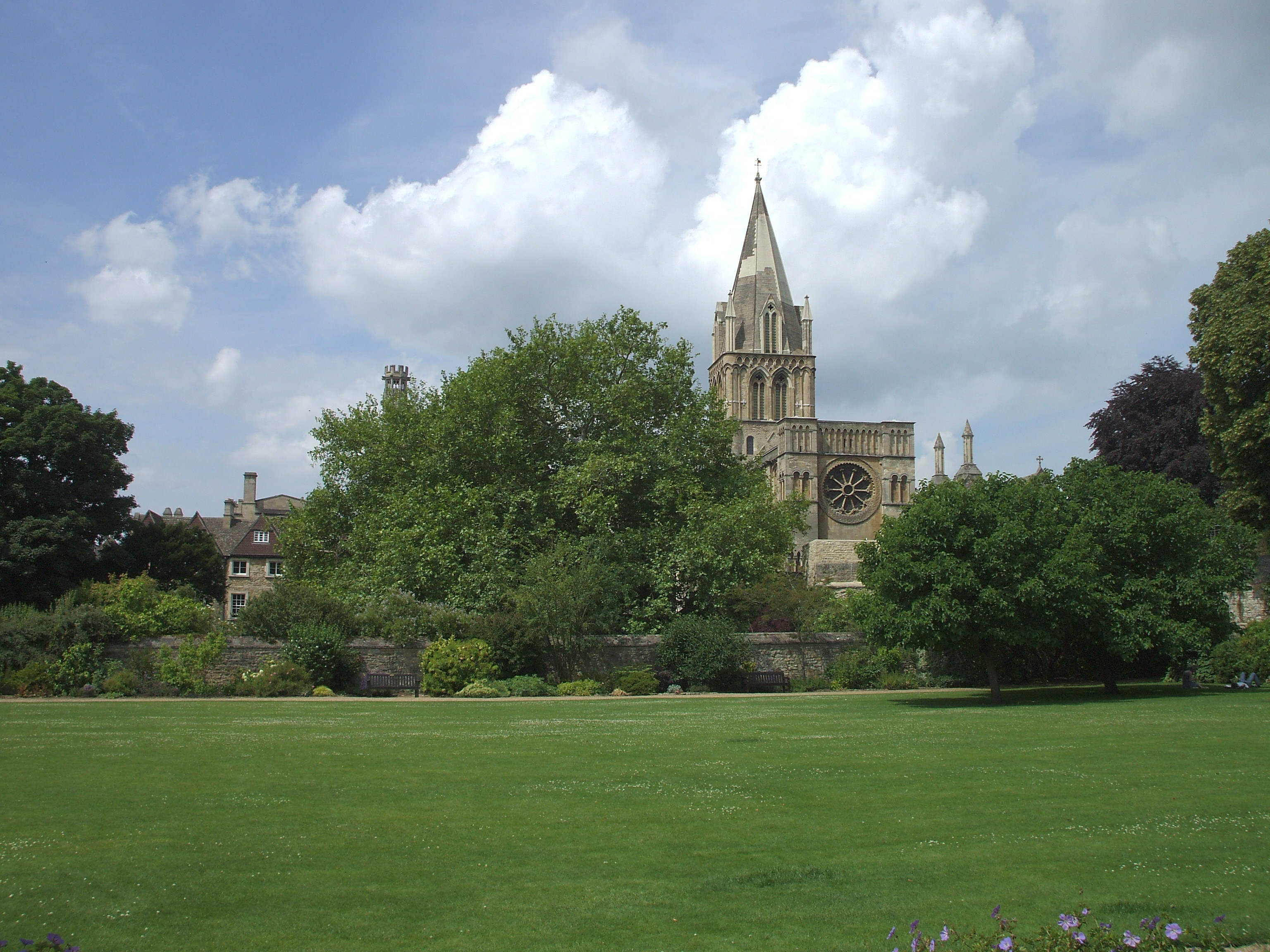 Christ Church Cathedral as viewed from the east across The Masters' Garden.